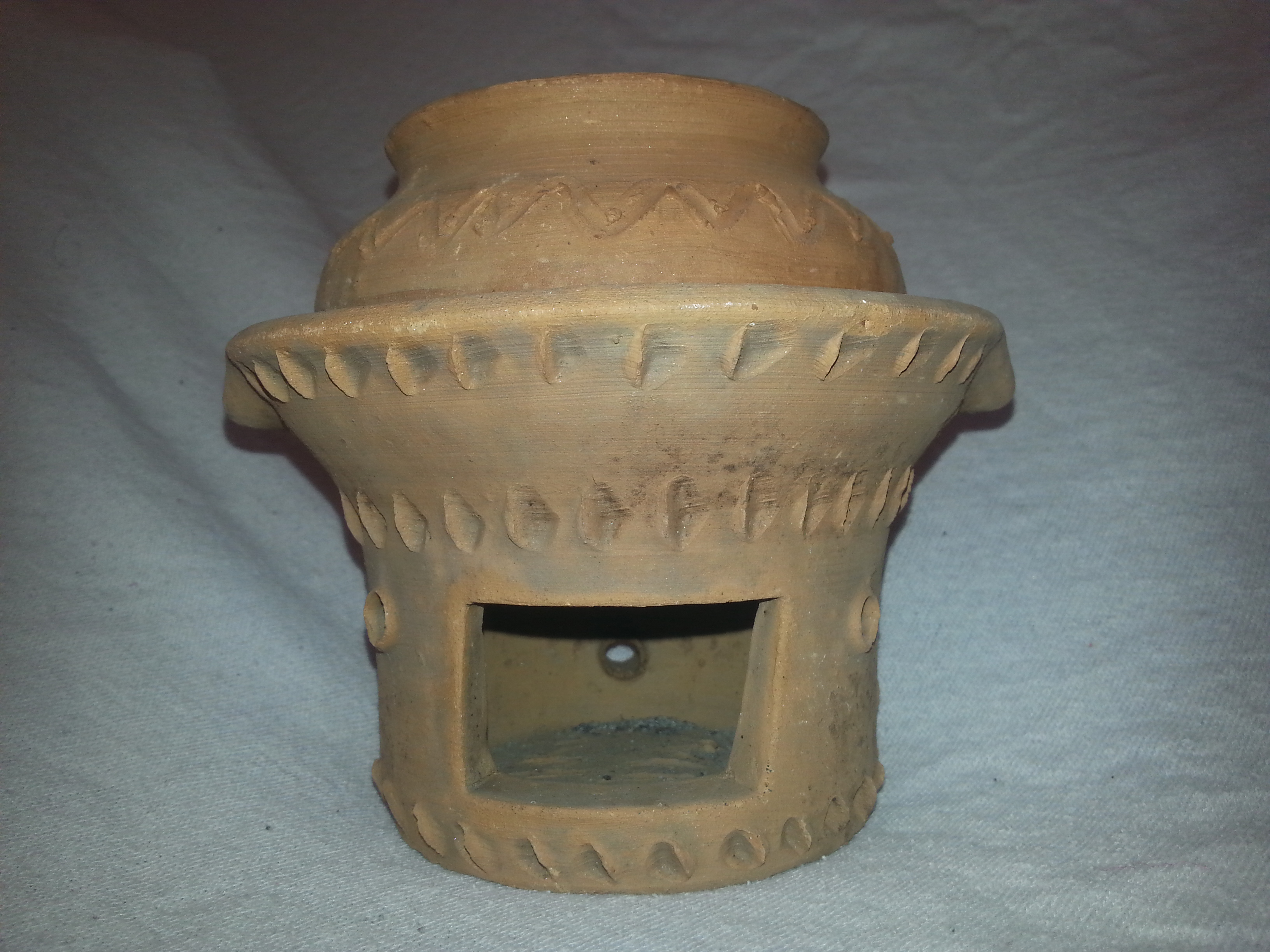 Iska Keramica, Veli Iž, Croatia